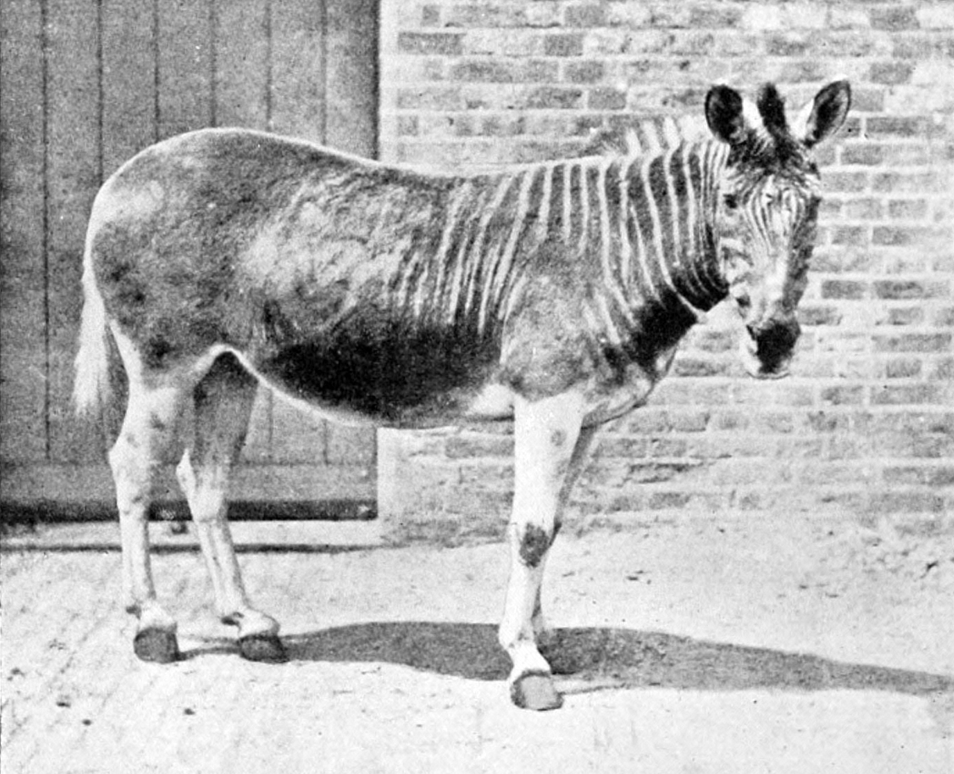 Quagga mare in enclosure, London Zoo.